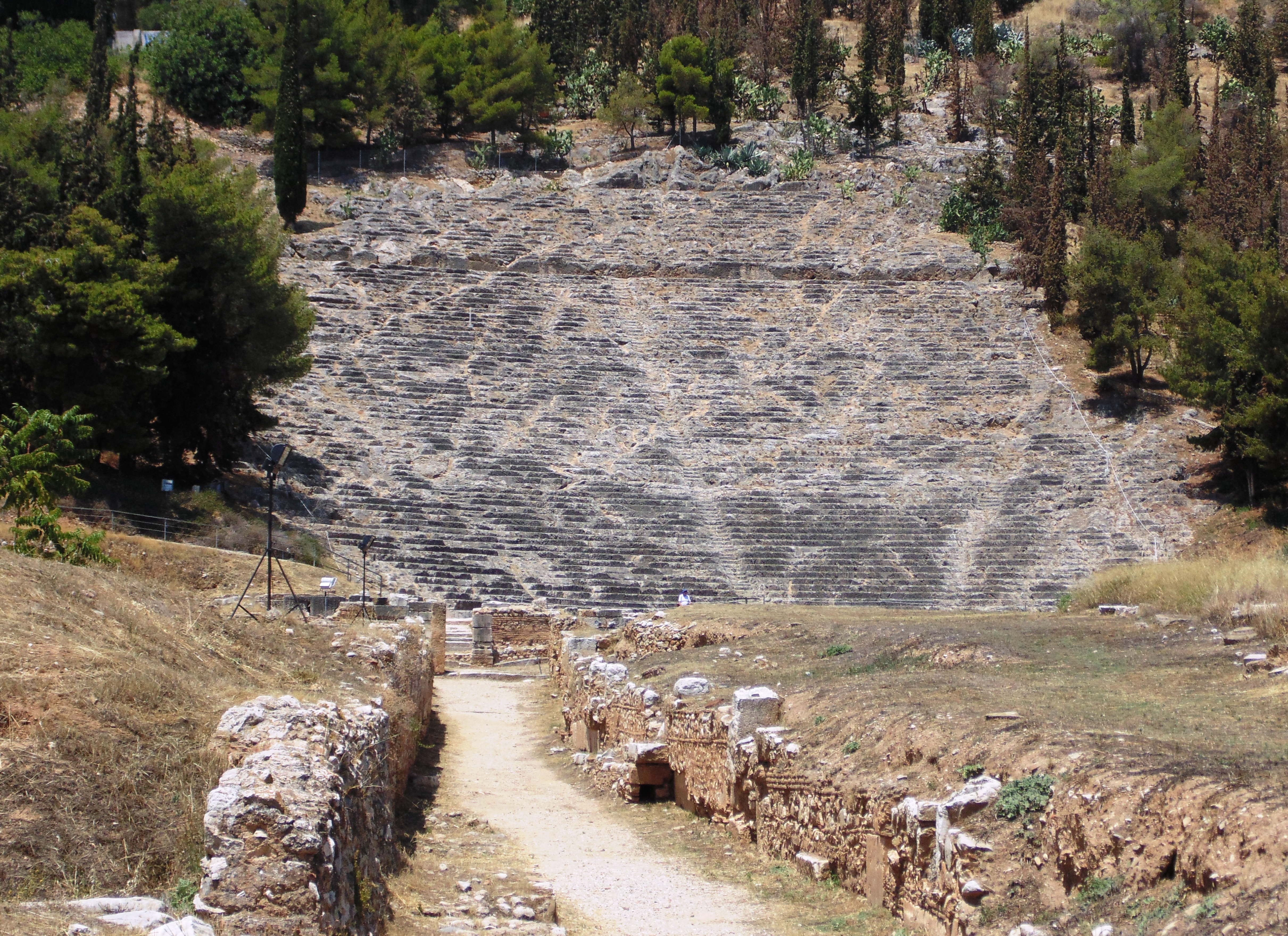 Ancient theatre